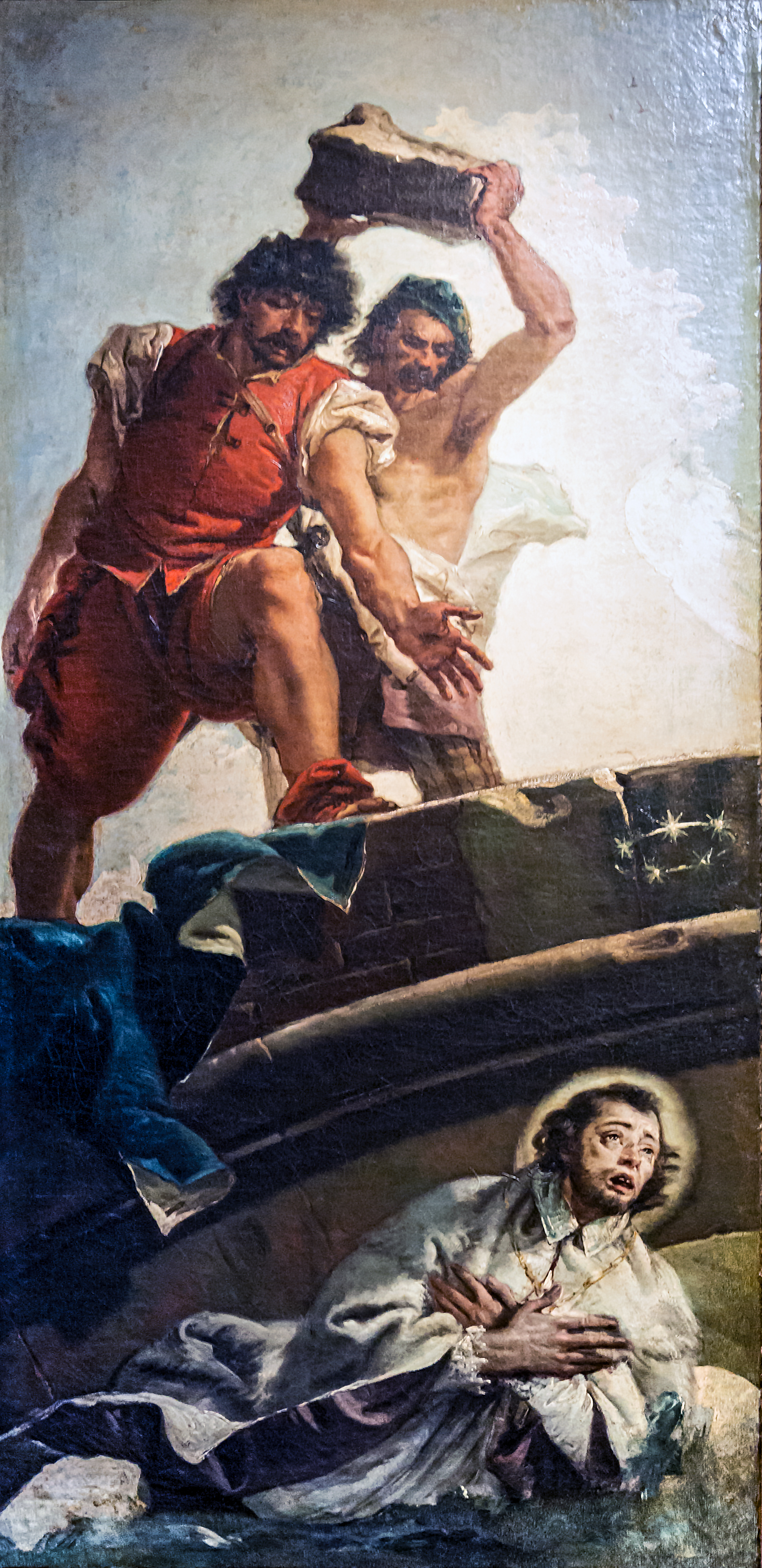 San Polo (church) - Oratory of the Crucifix Martyrdom of St. John of Nepomuk by Giandomenico Tiepolo. Oil on canvas (1745 -1749).